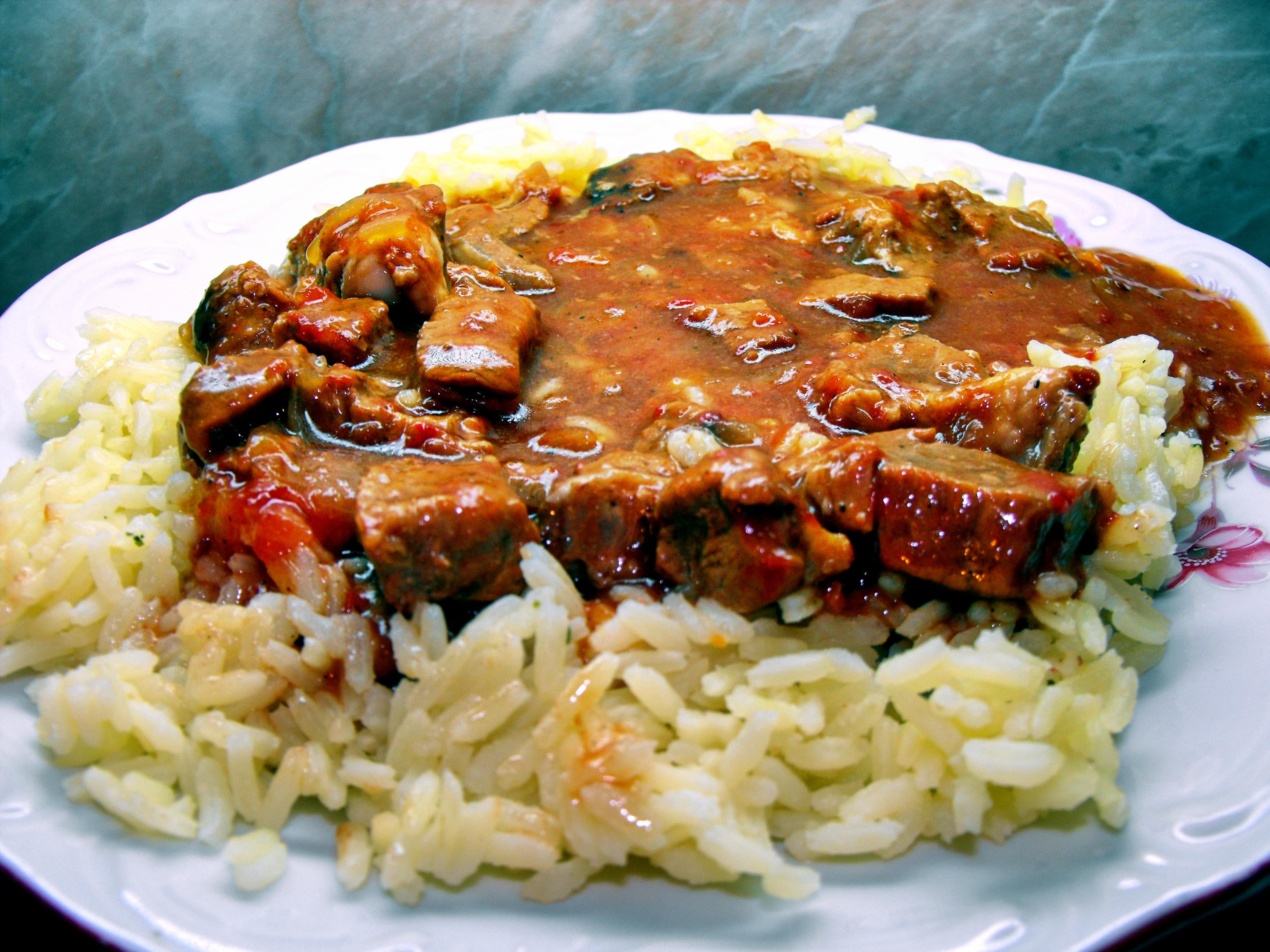 Kebap with rice. Traditional Bulgarian dish.